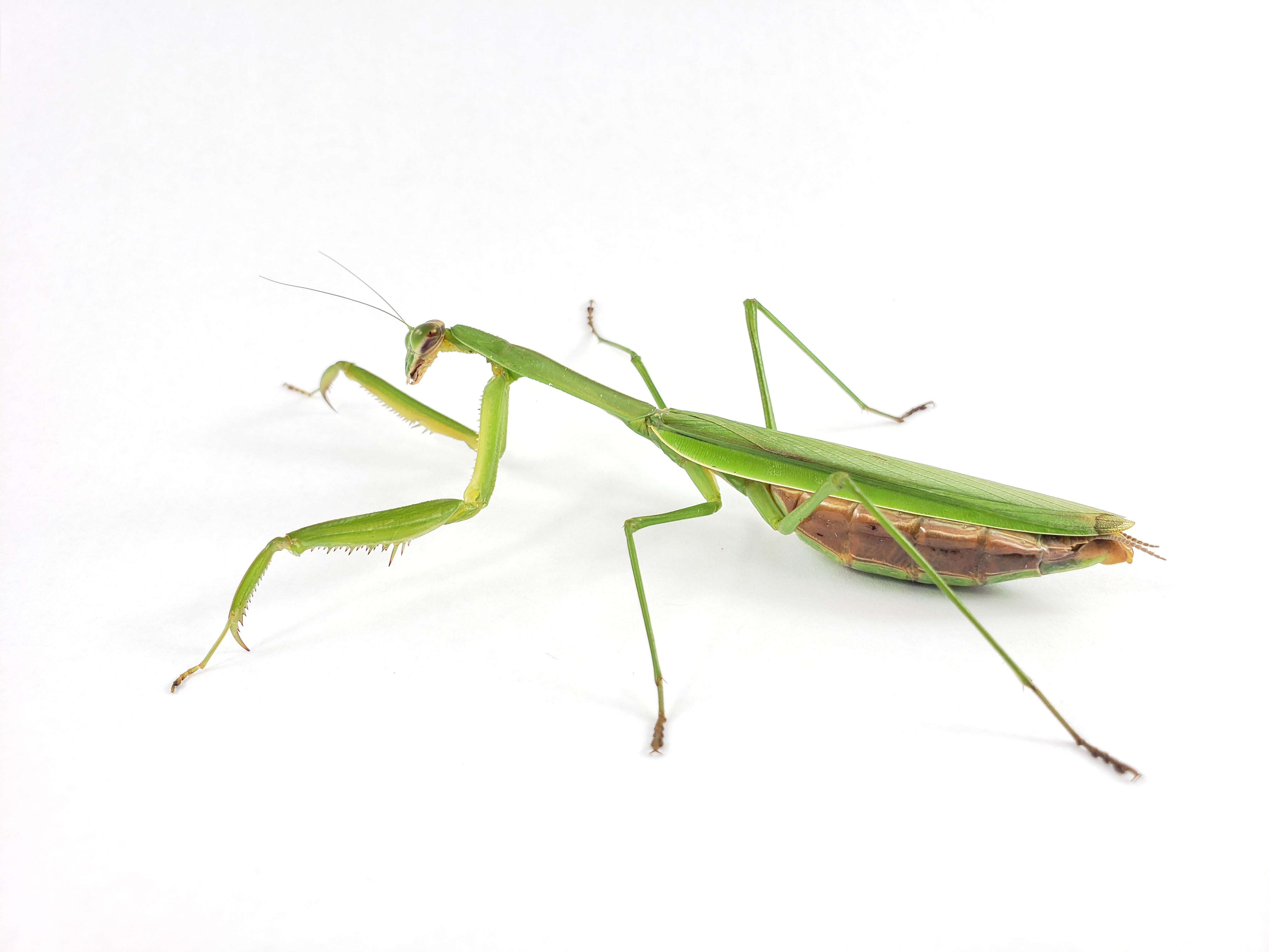 Green Chinese mantis (Tenodera sinensis) side